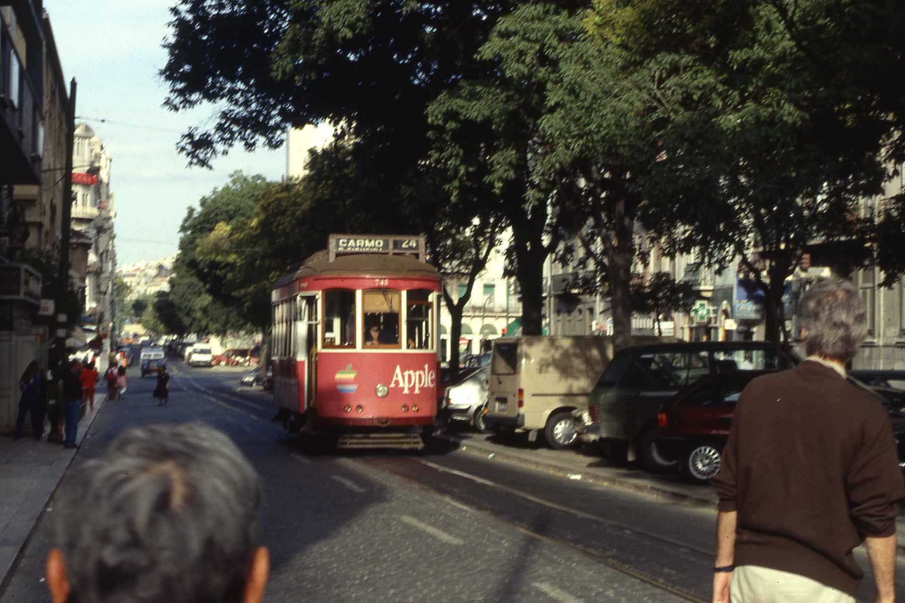 Lisbon tram on line 24. The line is no longer active.